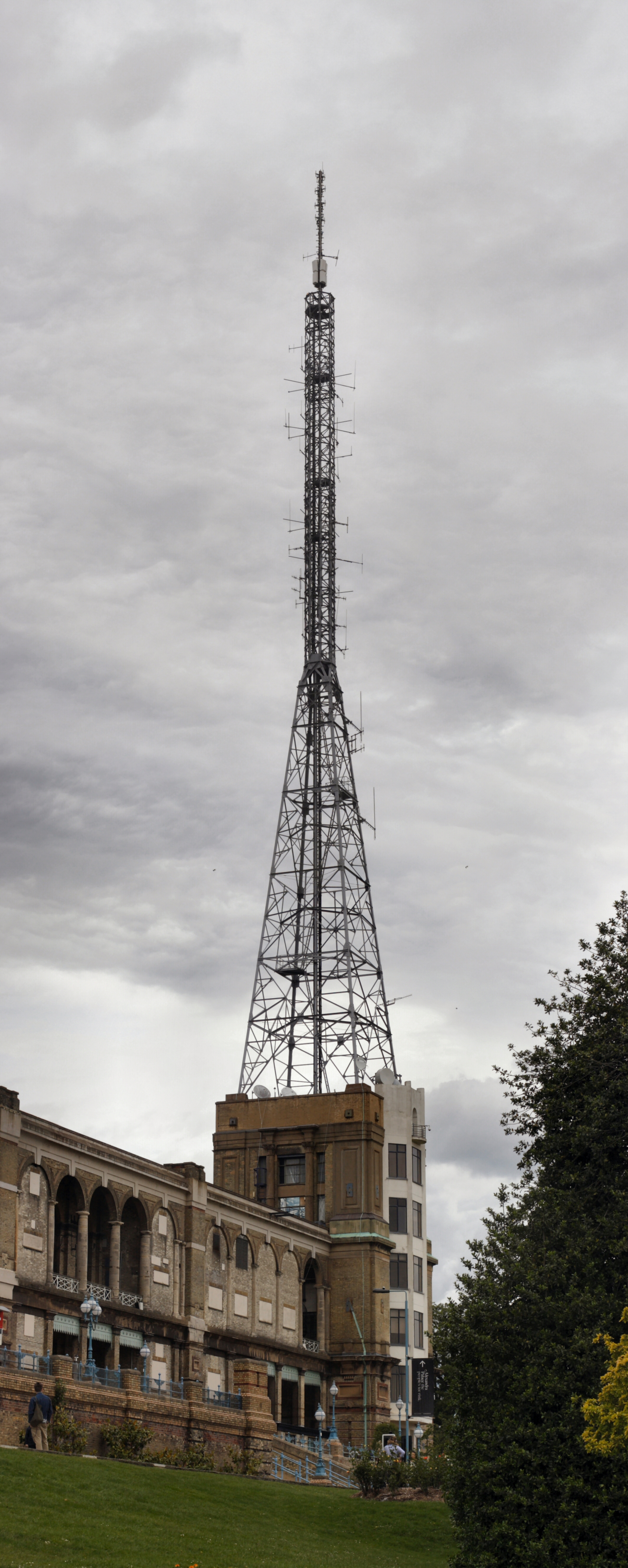 Alexandra Palace television tower